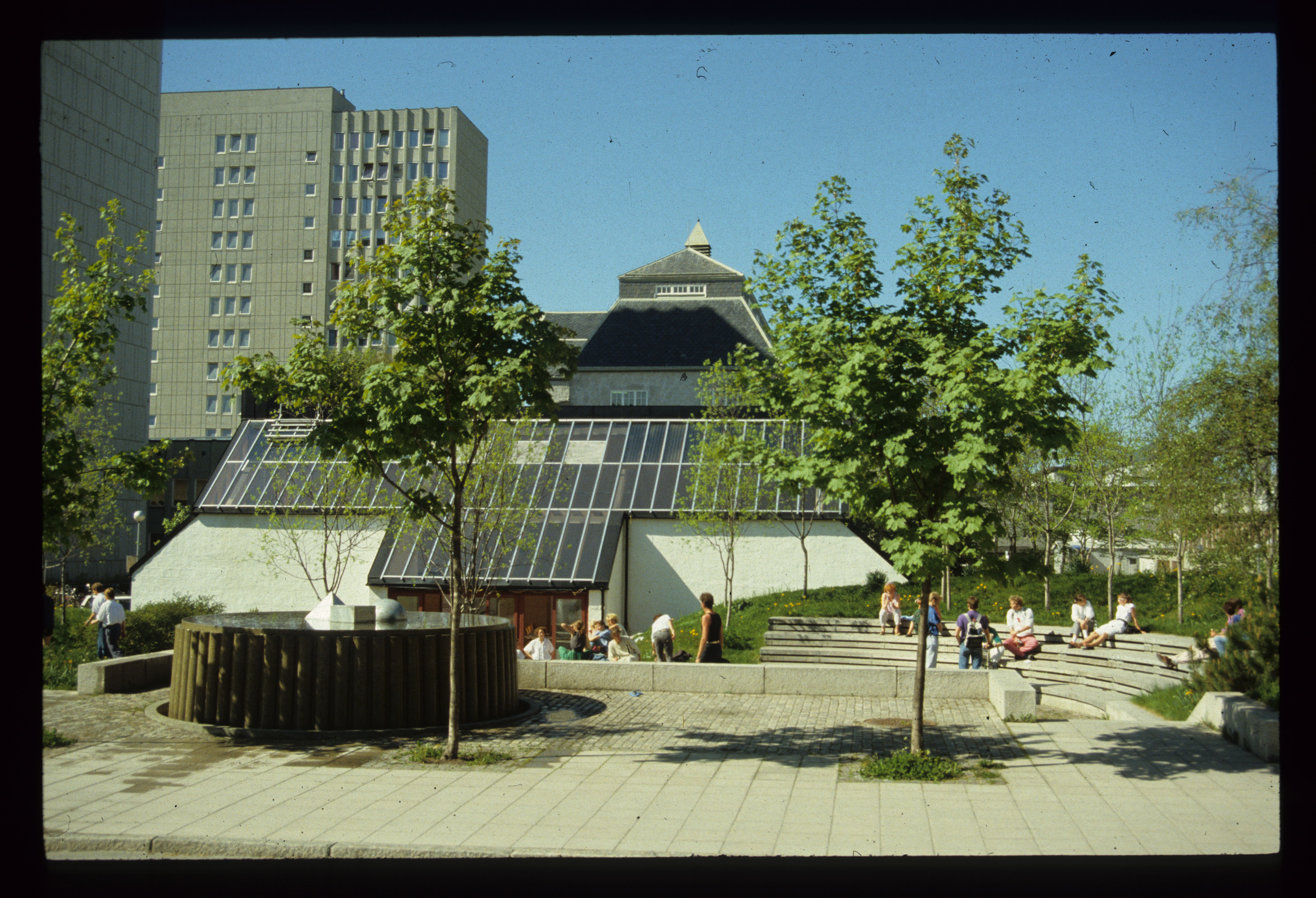 The experimental house Skiboli on Campus NTNU Gløshaugen, Trondheim, Norway